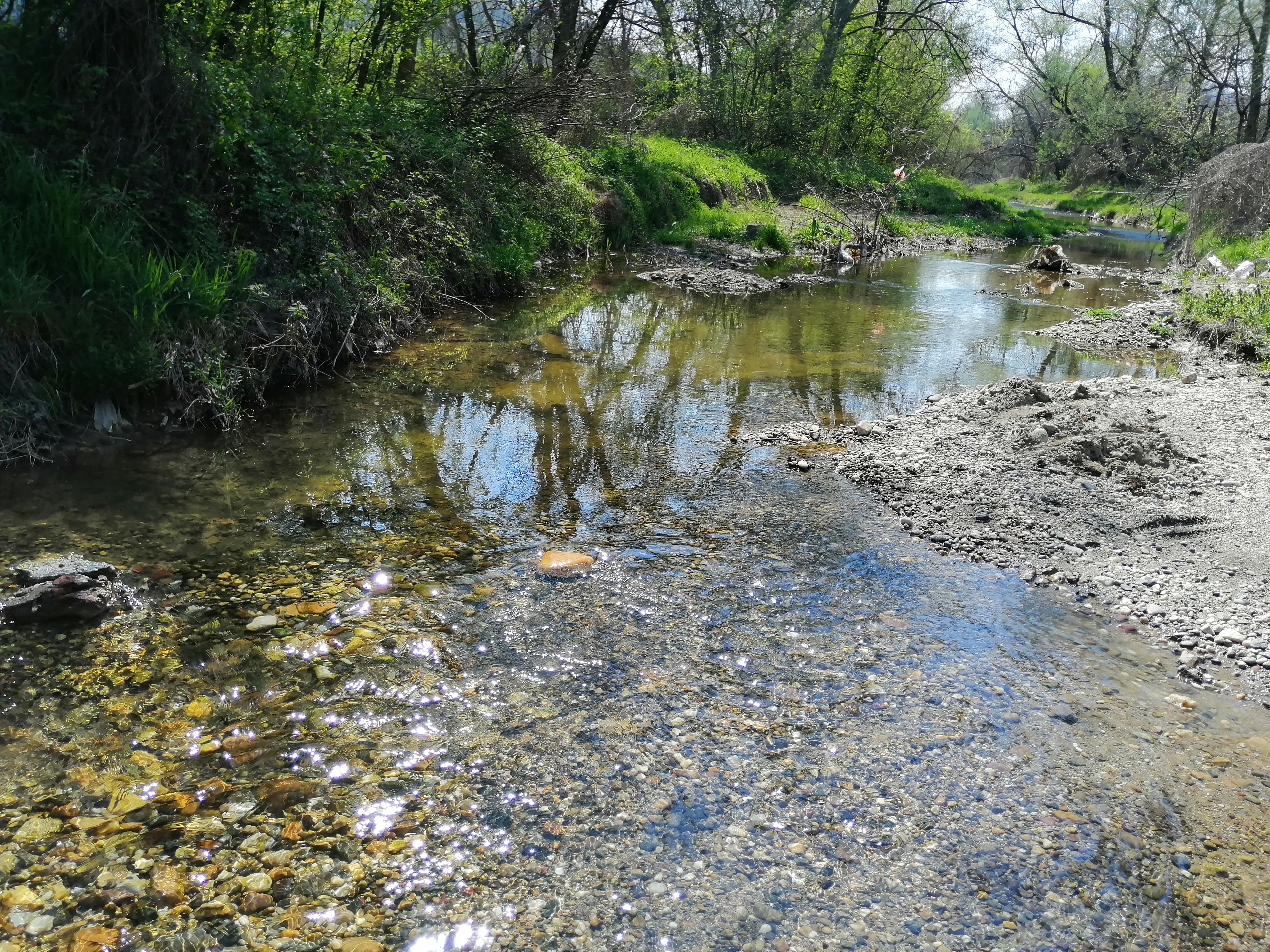 River Osaonica in Bagrdan, Serbia